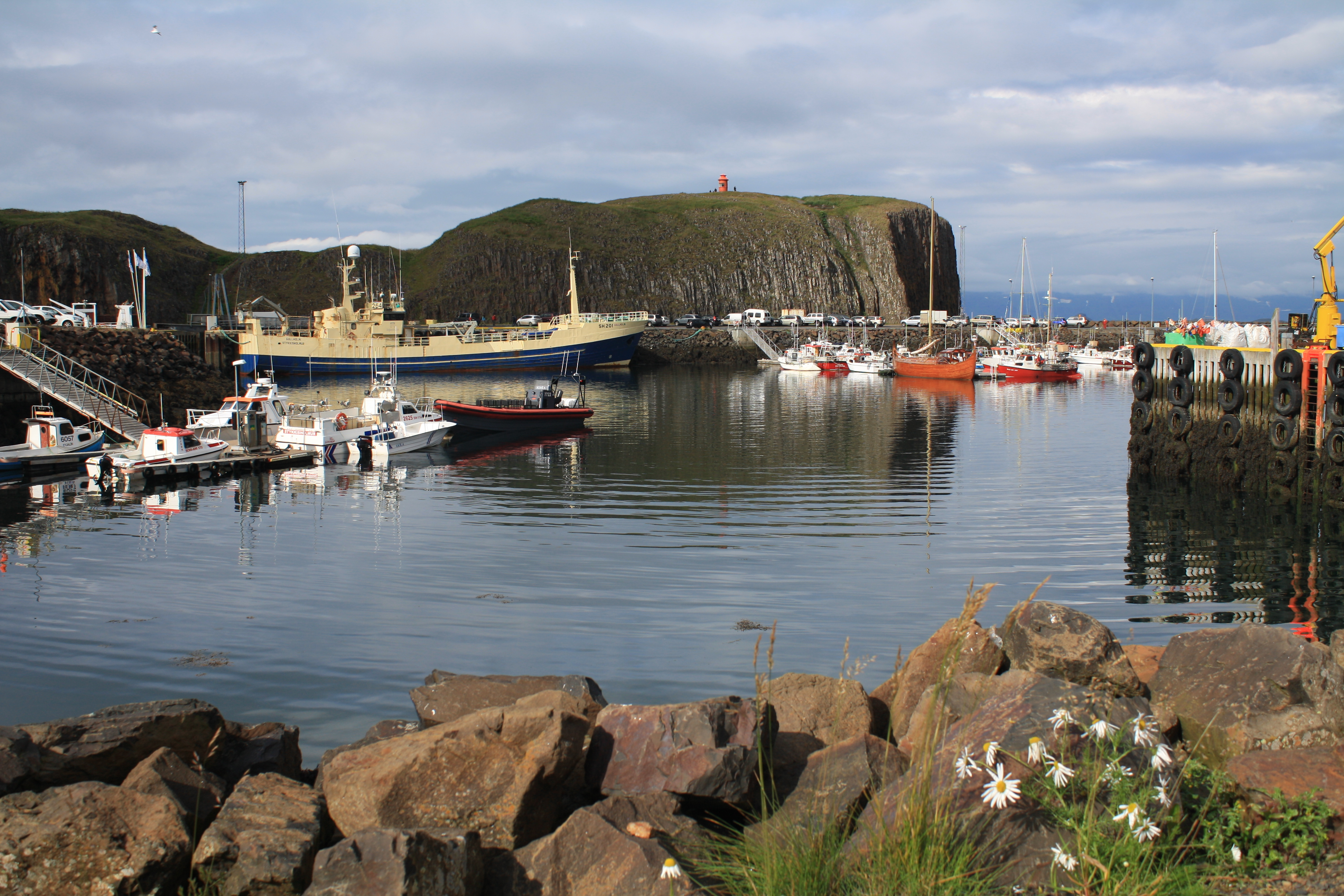 The harbour of Stykkishólmur, Iceland.